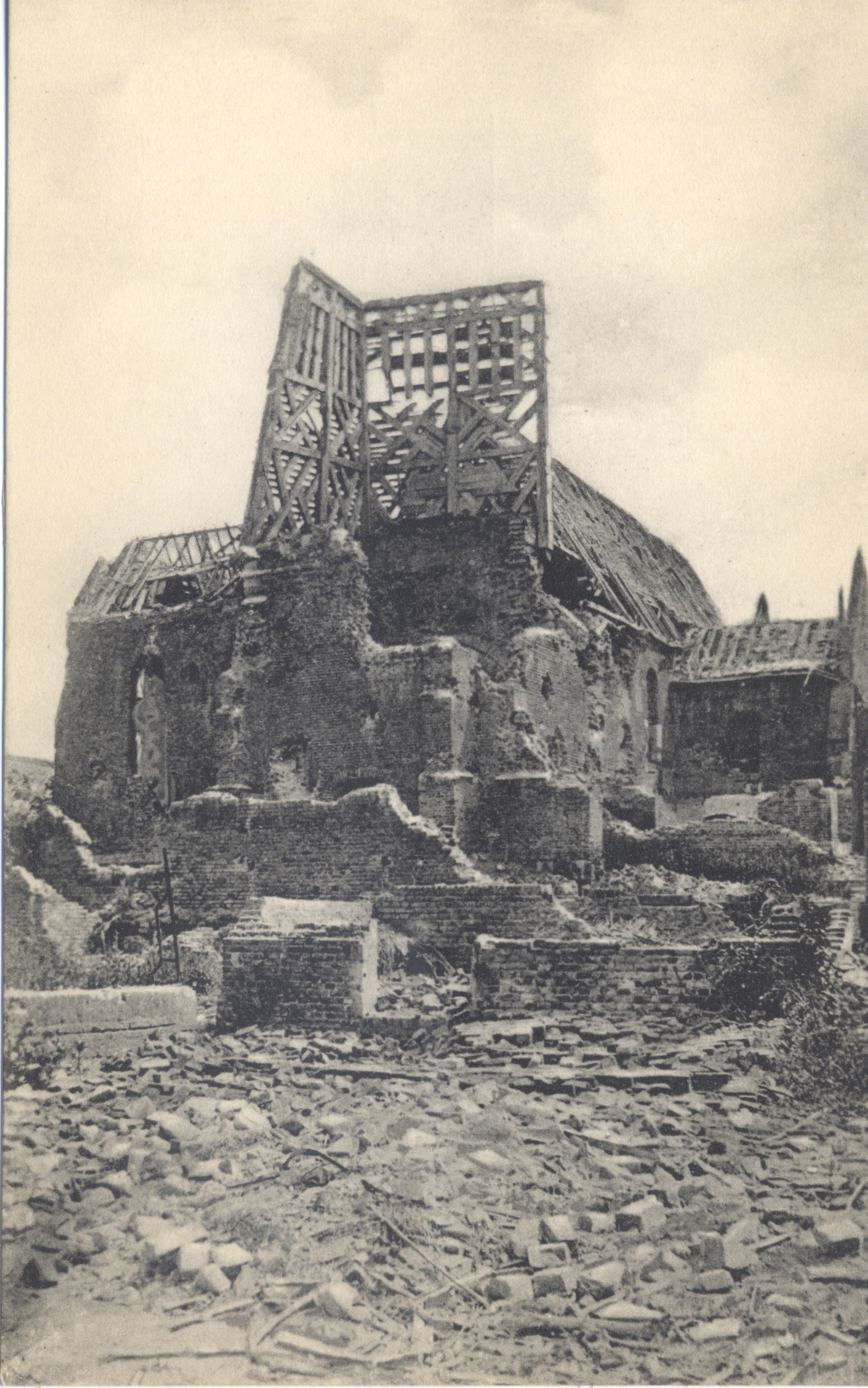 Persistent URL: Subject: World War I; Lost architecture; War damage; France--Laucourt; miami digital collections; bowden postcard collection